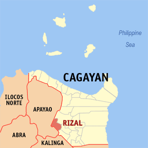 Map of Cagayan showing the location of Rizal